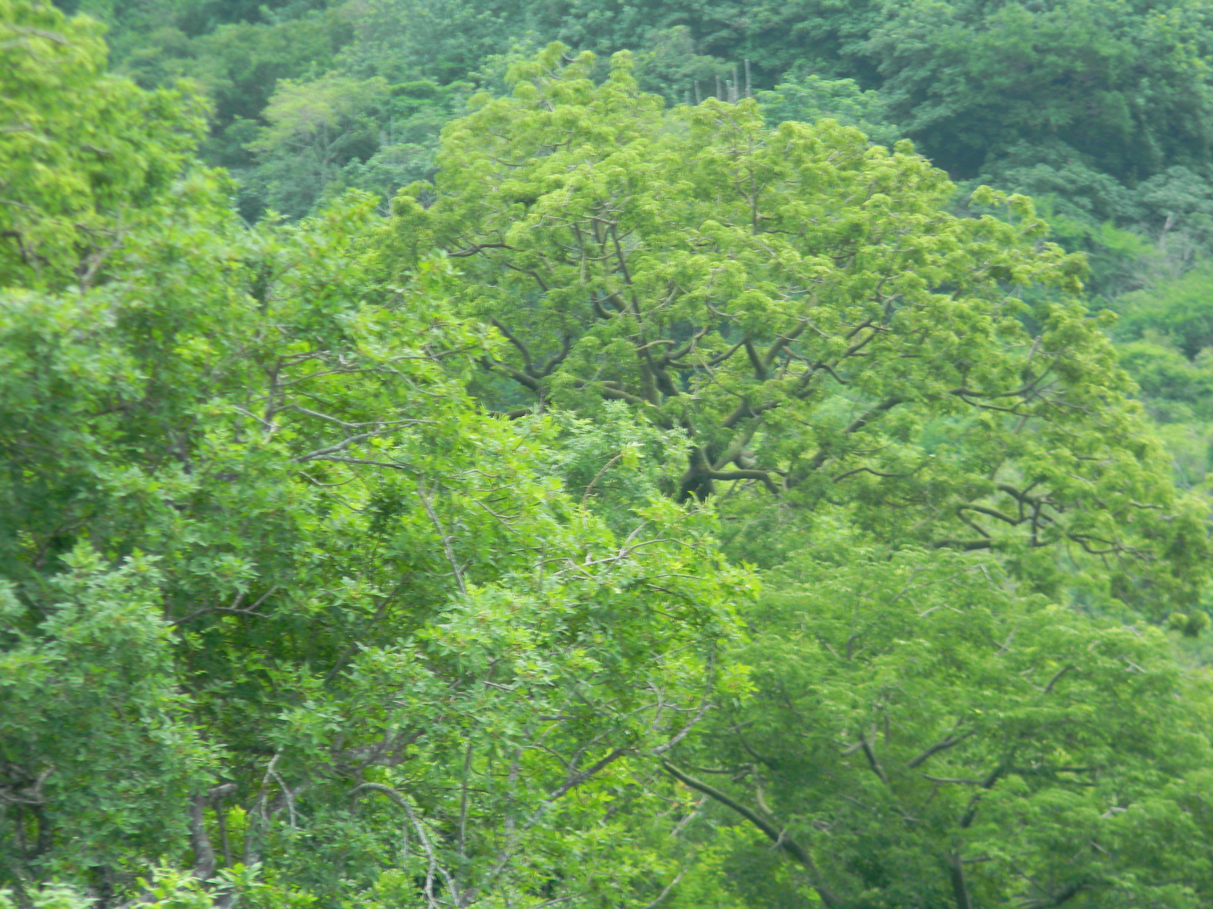 Bosque Seco Tropical